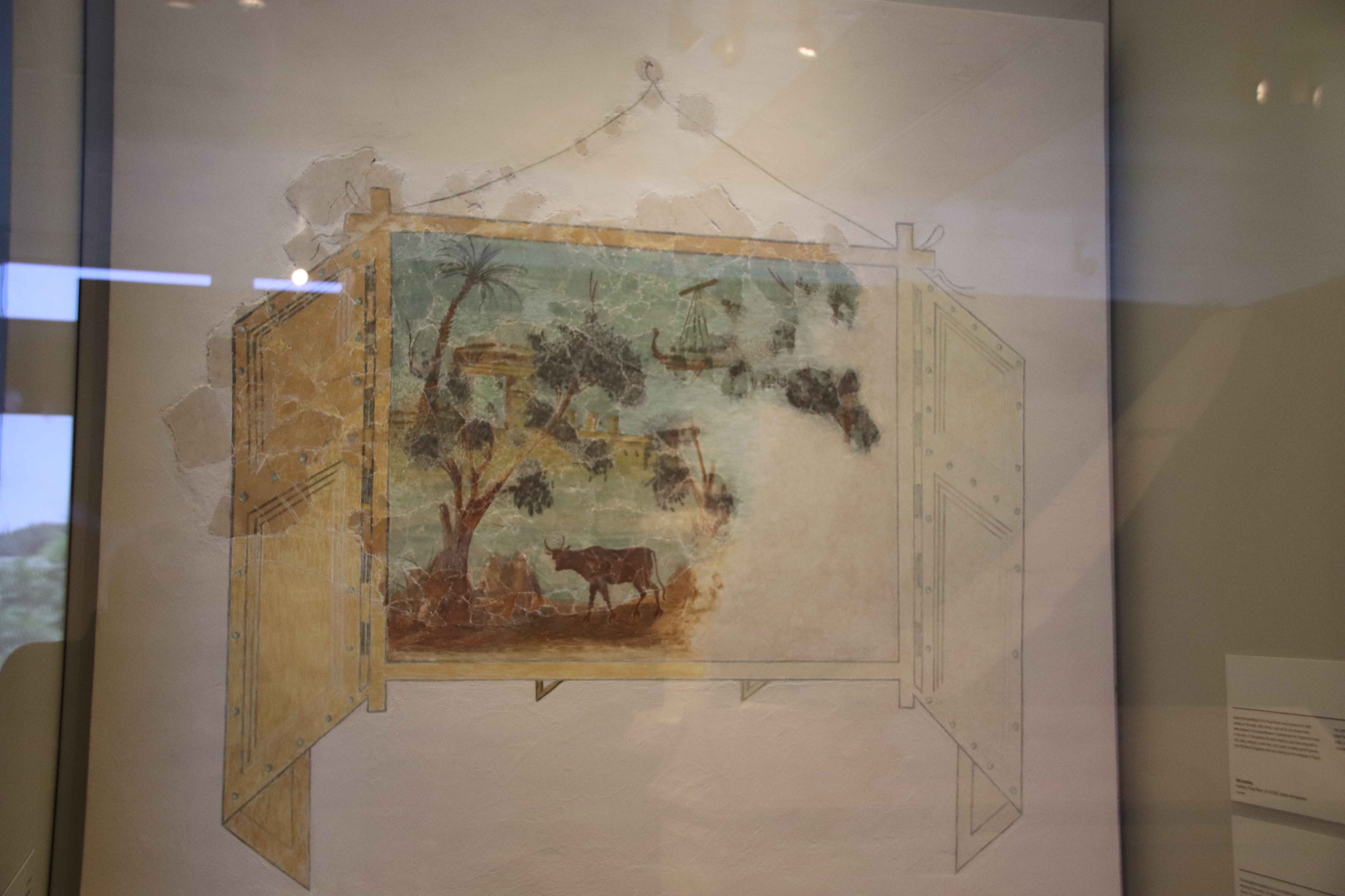 Israel Museum, Jerusalem, Israel. Complete indexed photo collection at